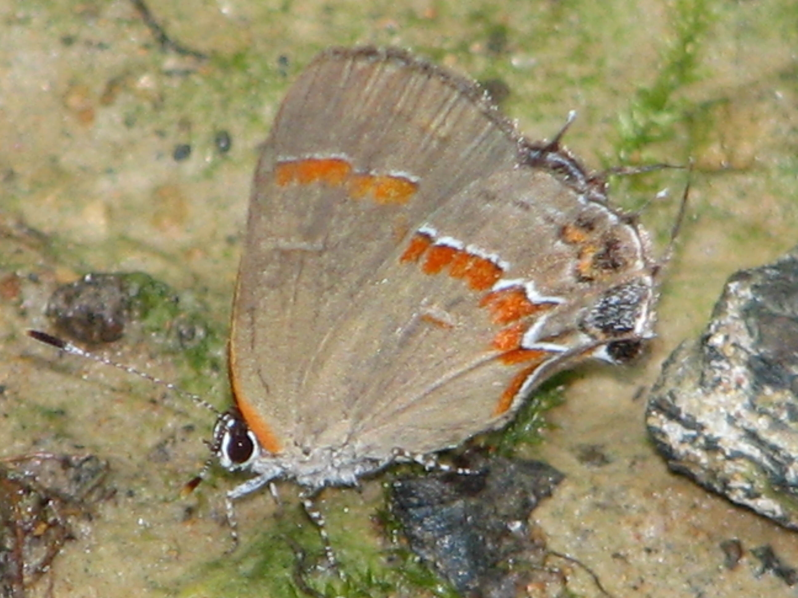 Red-banded Hairstreak (Calycopis cecrops) at Congaree National Park, South Carolina, USA